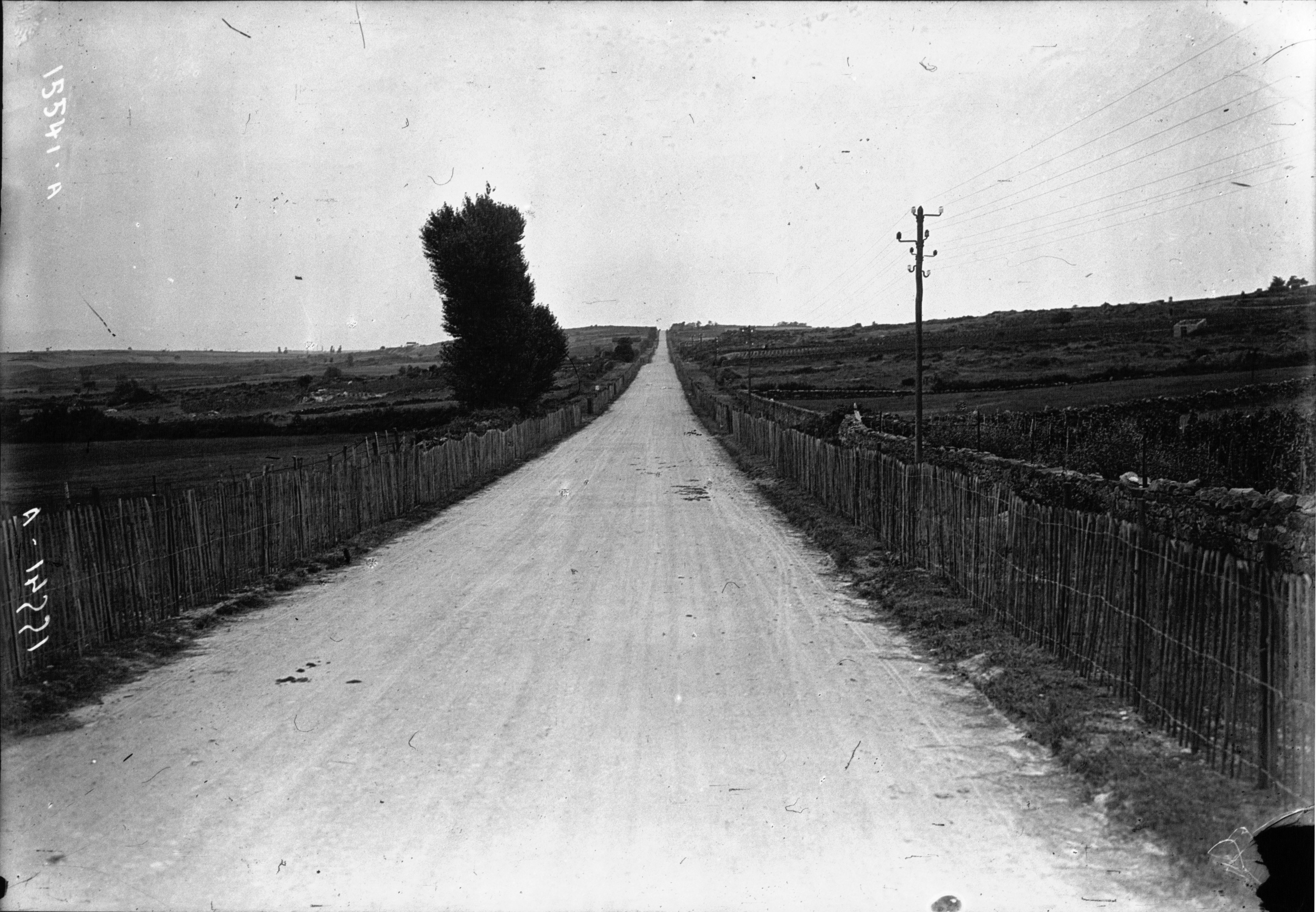 Strait at the 1924 French Grand Prix Lyon circuit